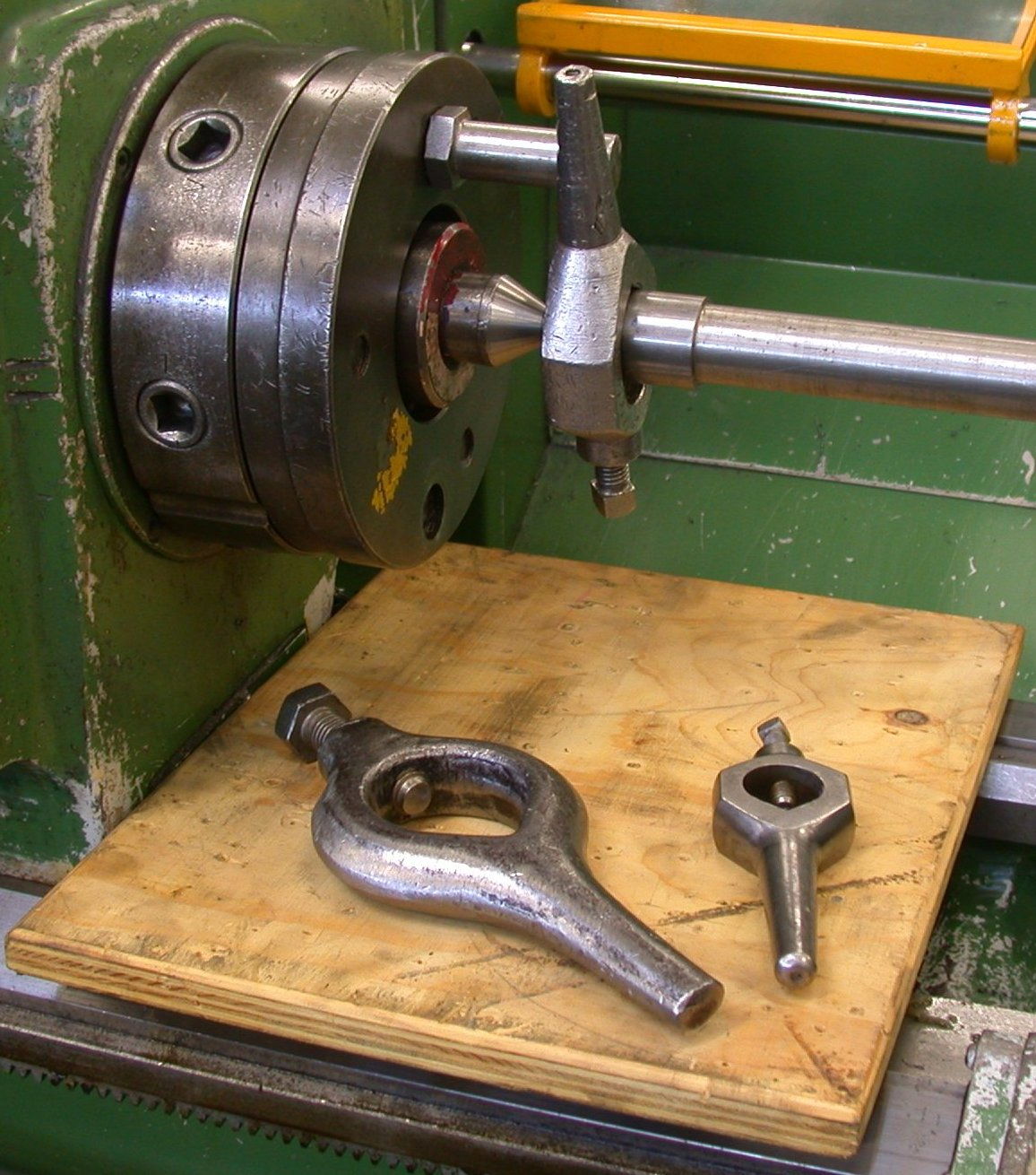 Drive plate, workpiece and carrier setup between centers on lathe (headstock center only shown). Two different sized carriers shown on wooden, bed protector.